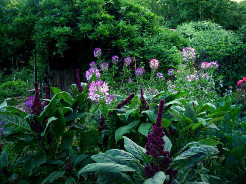 Evening light on Cleome Spinosa and Amaranthus Gangeticus (Elephant Head Amaranthus)